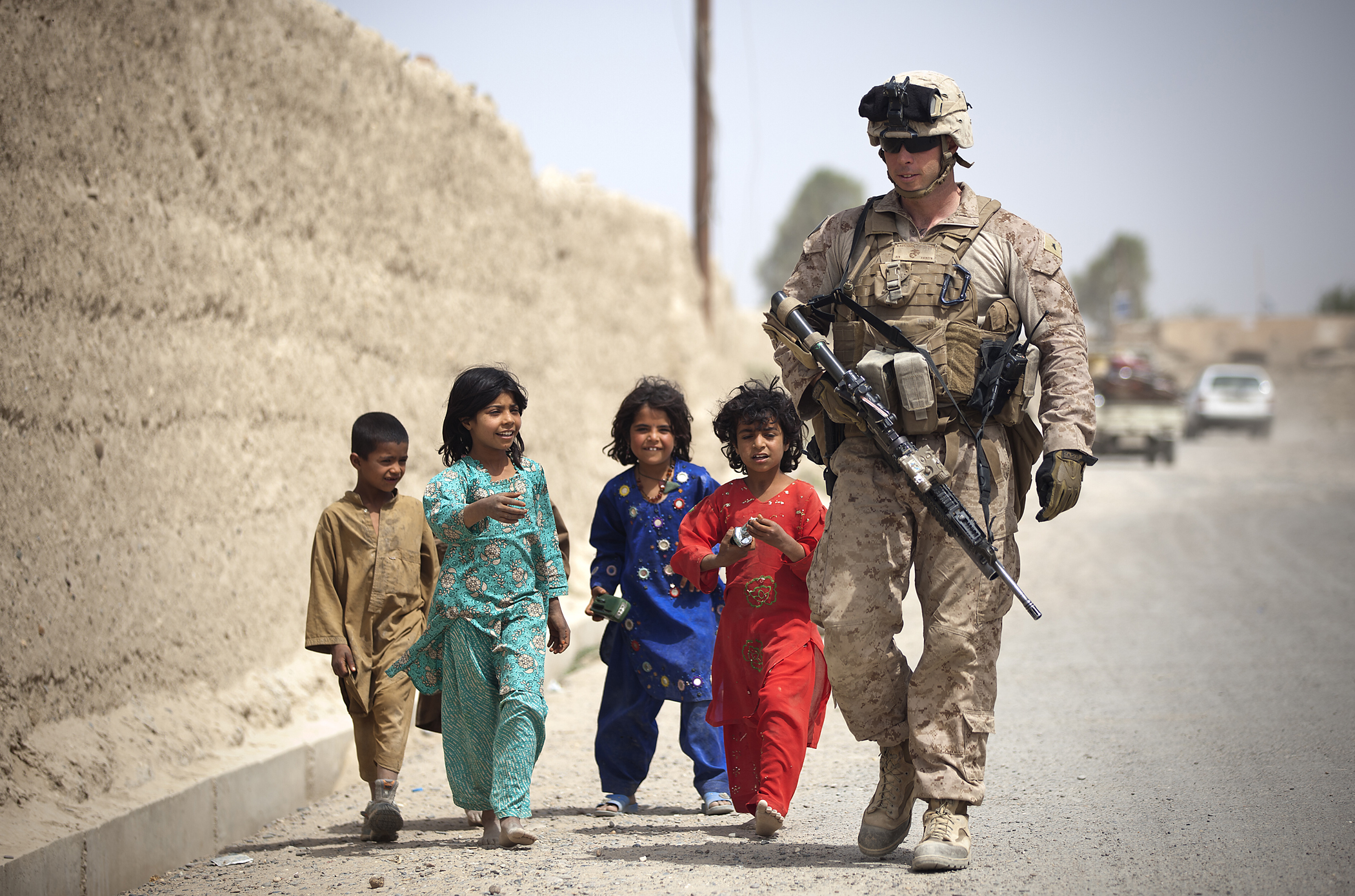 Afghan children walk alongside U.S. Marine Lance Cpl. Jacob Kartchner, a team leader with 4th Platoon, Kilo Company, 3rd Battalion, 3rd Marine Regiment, and 28-year-old native of Long Beach, Calif., in the hopes of receiving candy from Kartchner as he patrols with fellow Marines and Afghan National Police outside the Hazar Joft Bazaar here, April 8, 2012. On the patrol, the Kilo Co. Marines partnered with members of the ANP to maintain security in and around the bazaar, one of the busiest commercial centers in Helmand province’s Garmsir district. Their partnership is a vital part of preparing the Afghan National Security Forces to assume lead security responsibility in Garmsir. Regimental Combat Team-5, 1st Marine Division Photo by Cpl. Reece Lodder Date Taken:04.09.2012 Location:HAZAR JOFT, AF Read more